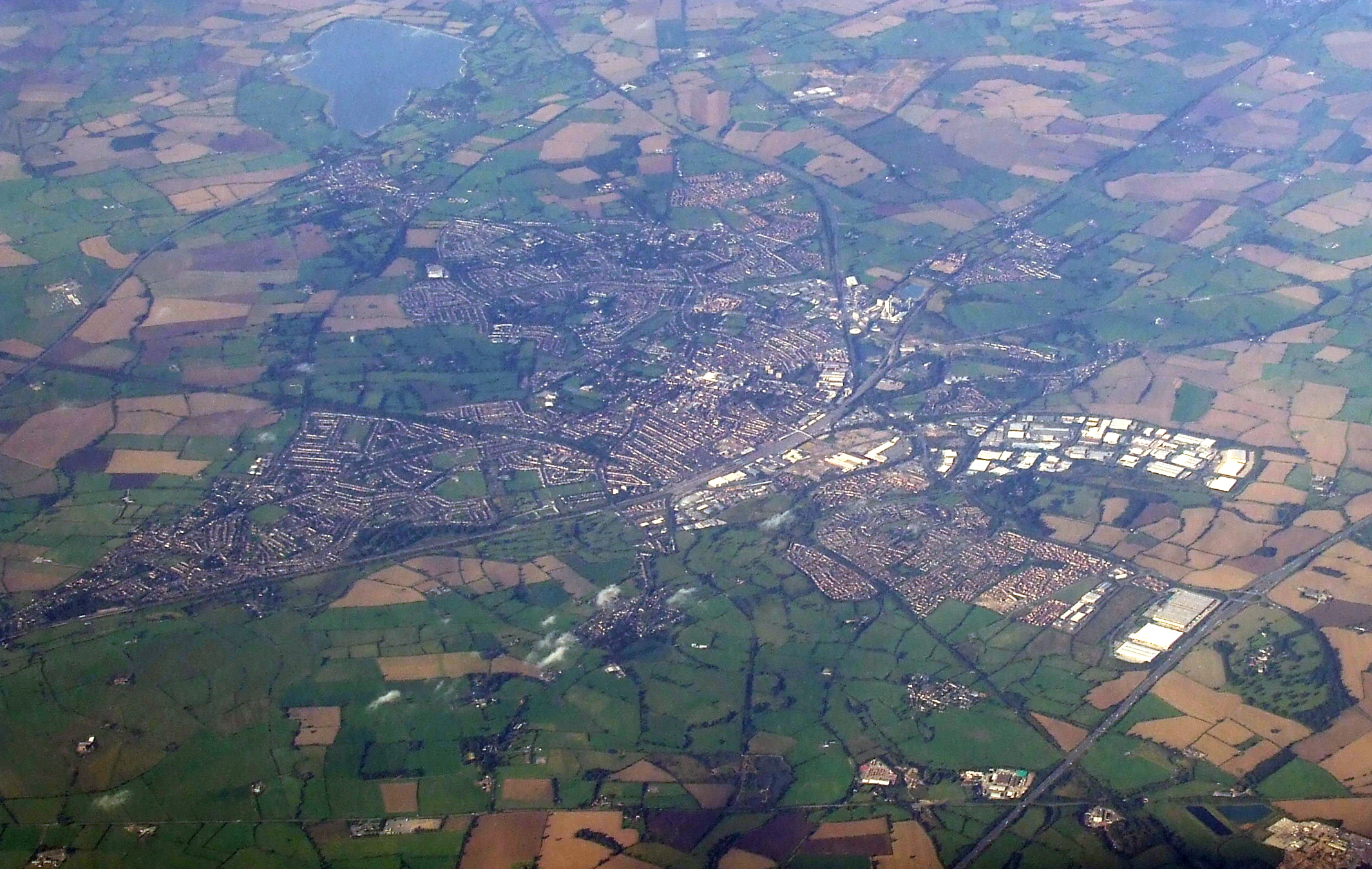 Rugby from the air The M1 motorway runs horizontally across the bottom of the photo, with the M6 motorway branching off towards the top right from Junction 19. Viewed from a Glasgow bound flight from Luton.